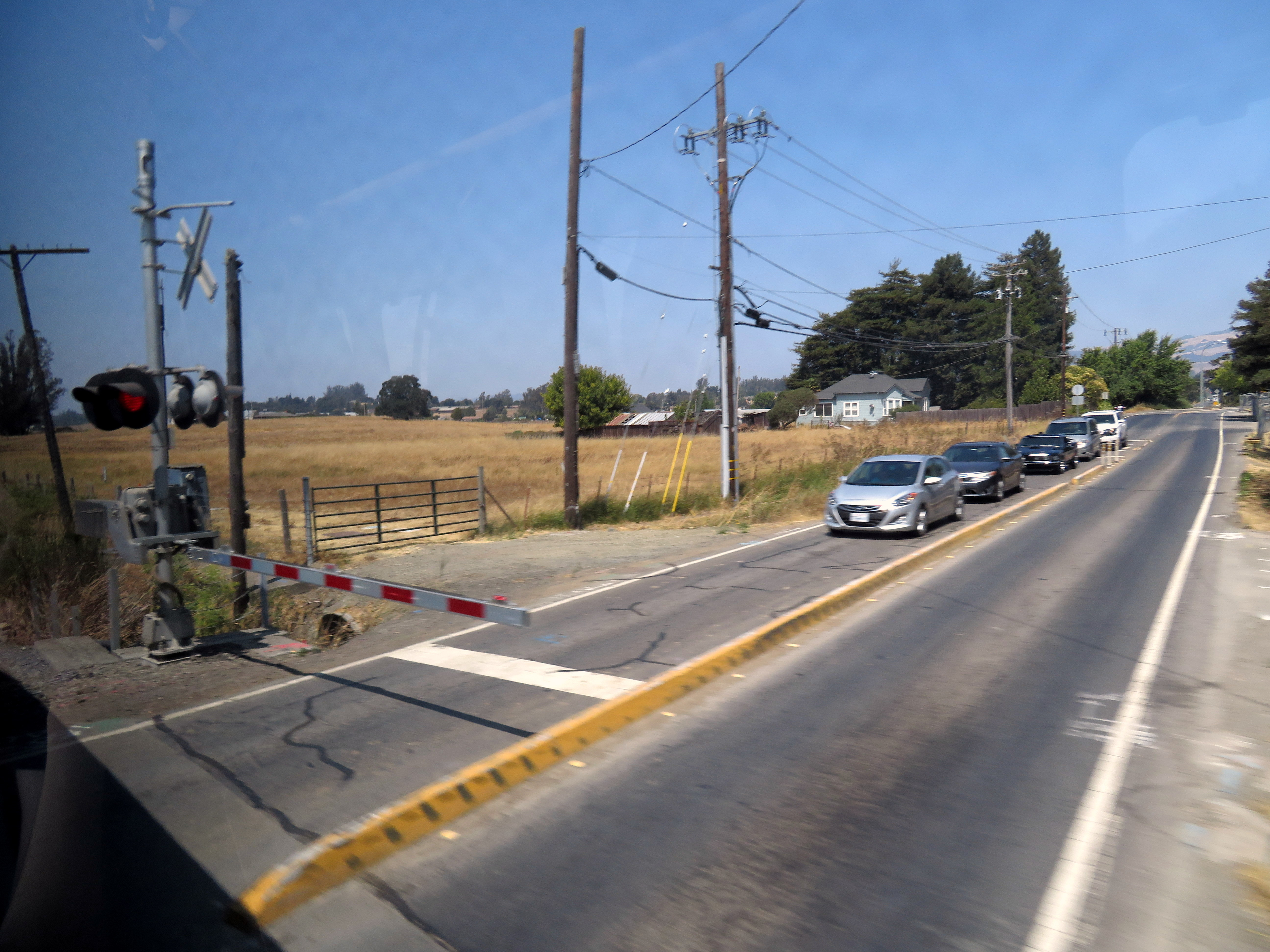 Corona Road, the proposed site of Petaluma North station, viewed from a train in August 2018